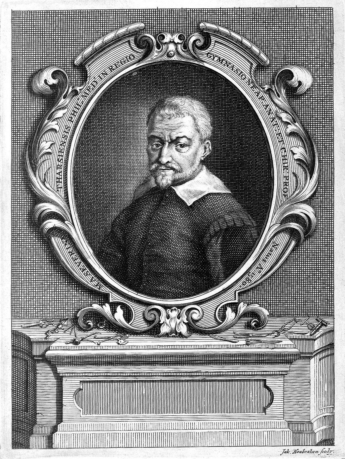 Iconographic Collections